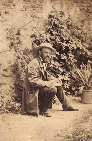 Frederik Christian Jacobsen Kiærskou (1805-1891), Danish landscape painter